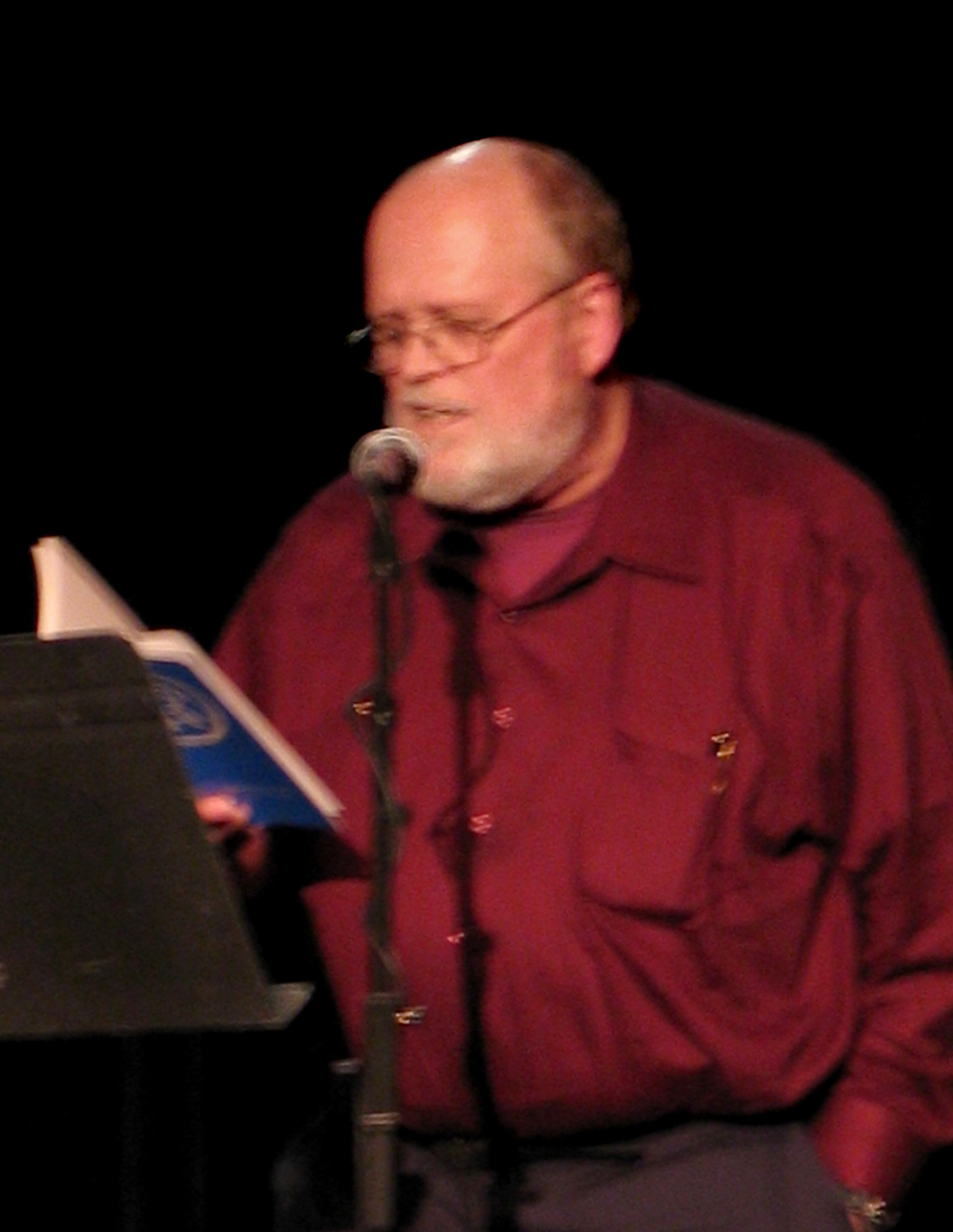 Poet Ron Silliman gives a reading